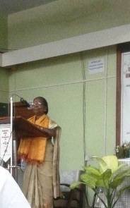 Lakshmikutty Amma, Padma Shree Awardee and Traditional Herbal healer, delivering a speech in ISP 2018, held in JNTBGRI in association with KAS, Kerala.